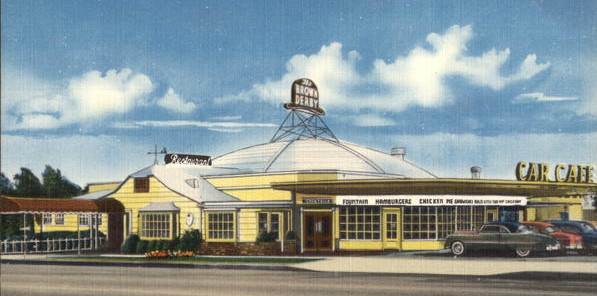 Postcard image of the Brown Derby restaurant on Los Feliz Boulevard. Originally built in 1928 as Willard's Chicken Inn restaurant before being converted into a Brown Derby in 1940. {1} This postcard was produced prior to 1978 and has no copyright markings. The image has been cropped. This branch of the restaurant began in 1940; by 1960, the building had been sold and was operated as a restaurant under a different name. The building has had many different uses since it was originally a Brown Derby restaurant.